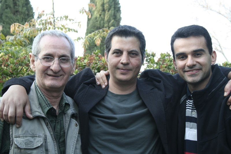 Left to Right: Andranik (composer), Parviz Rahman-Panah (tar soloist) and Pejman Akbarzadeh (pianist, journalist) - Los Angeles, April 2008